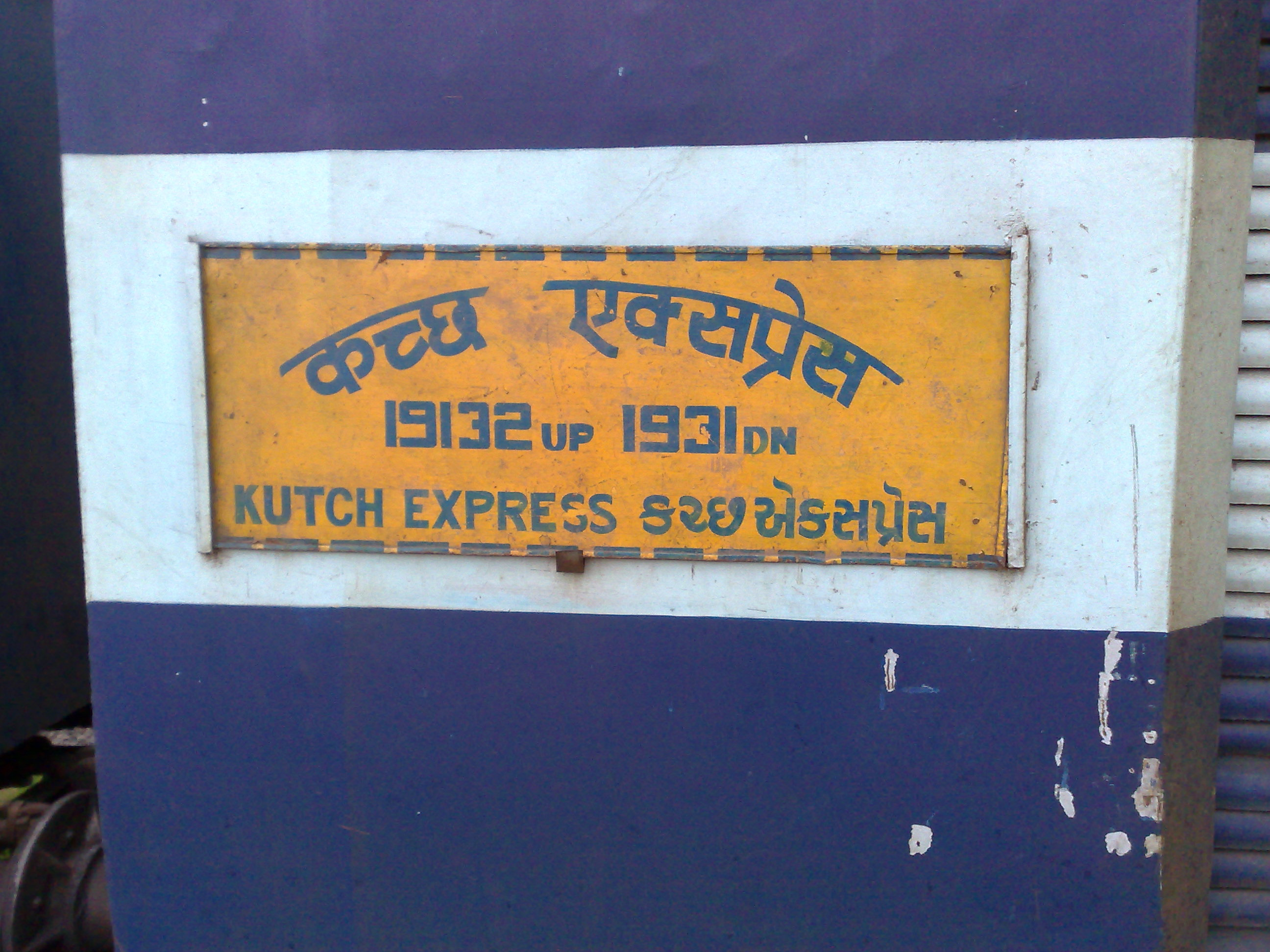 19131 Kutch Express